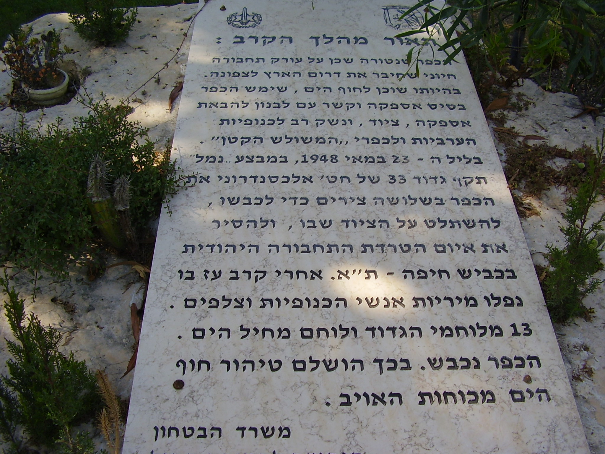 Alexandroni Brigade memorial in Tantura